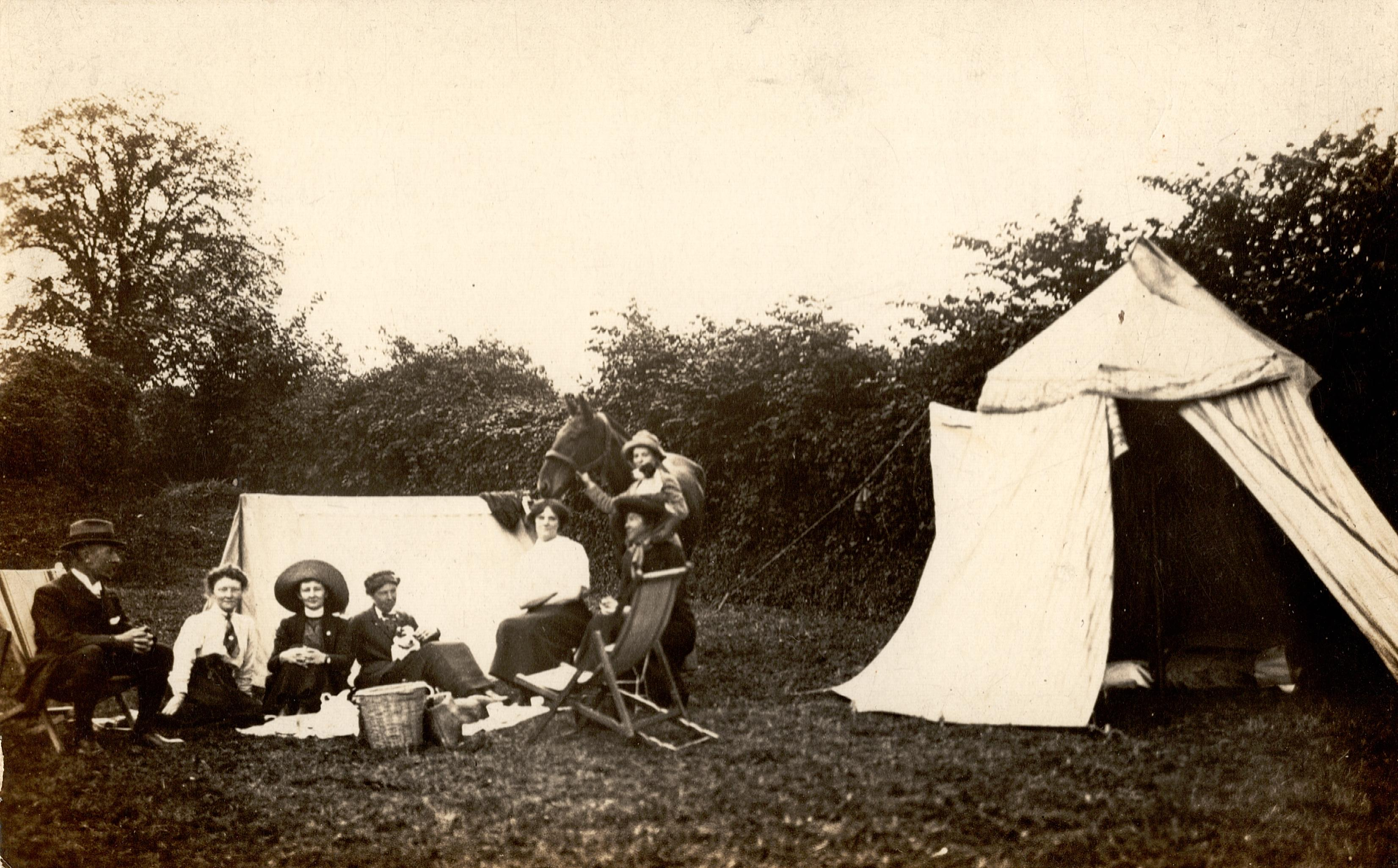 Camp at Kineton, Women's pilgrimage 1913 - 26778716588 Edith Eskrigge 4th from left